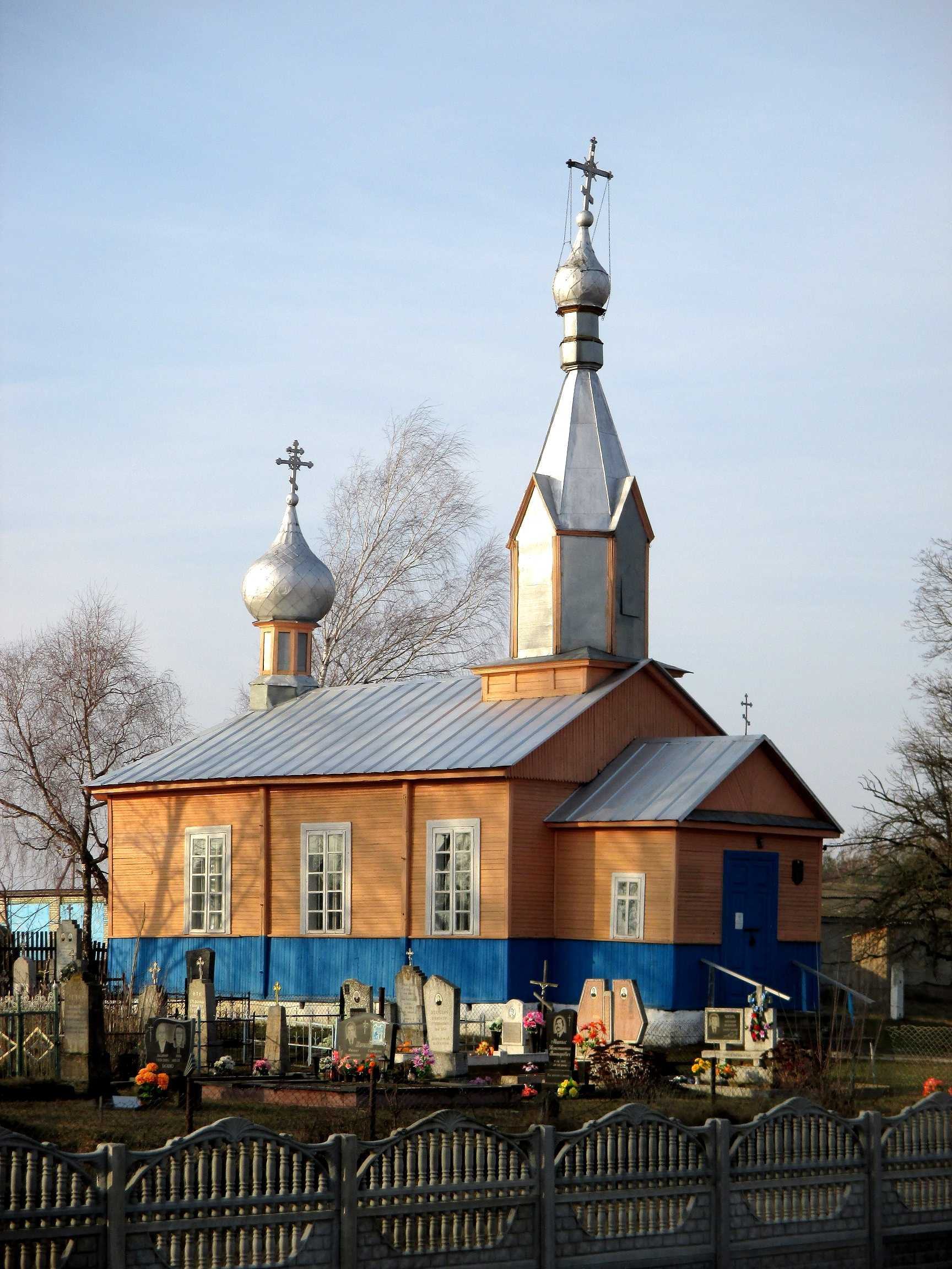 Orthodox church of the Exaltation of the Holy Cross, Bielica